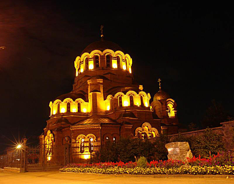 St. Alexander Nevsky's Cathedral in Novosibirsk, Russia